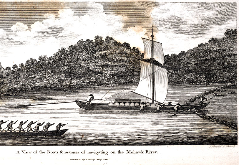 "A View of the Boats & manner of navigating on the Mohawk River". Marked "Published by I. Riley, July 1810", "Ch. Loss del — P. Maverick sc Newark". The boat with sails is a Durham boat. The V-shaped structure in the river is a rock wing dam. Caption by M. Paul Keesler: "The crew pulls a Durham Boat through a modified eel weir on the Mohawk River."Keesler, M. Paul (2008) "10 - The Canals" in Mohawk: Discovering the Valley of the Crystals, North Country Press ISBN: 9781595310217. "Sediments, including rock, cobble, gravel and sand, poured into the Mohawk River from tributary streams during highwater periods, creating bars near the mouths of streams, and riffs and rapids further downstream. While many of these deposits served as river crossings, they were obstacles to navigation. The WILNC adjusted these obstacles by removing rocks, cutting deeper channels . . . and building modified eel weir dams."